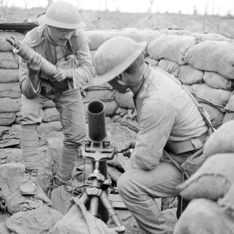 Photograph of Portuguese troops loading a Stokes Mortar on the Western front, late in WWI.